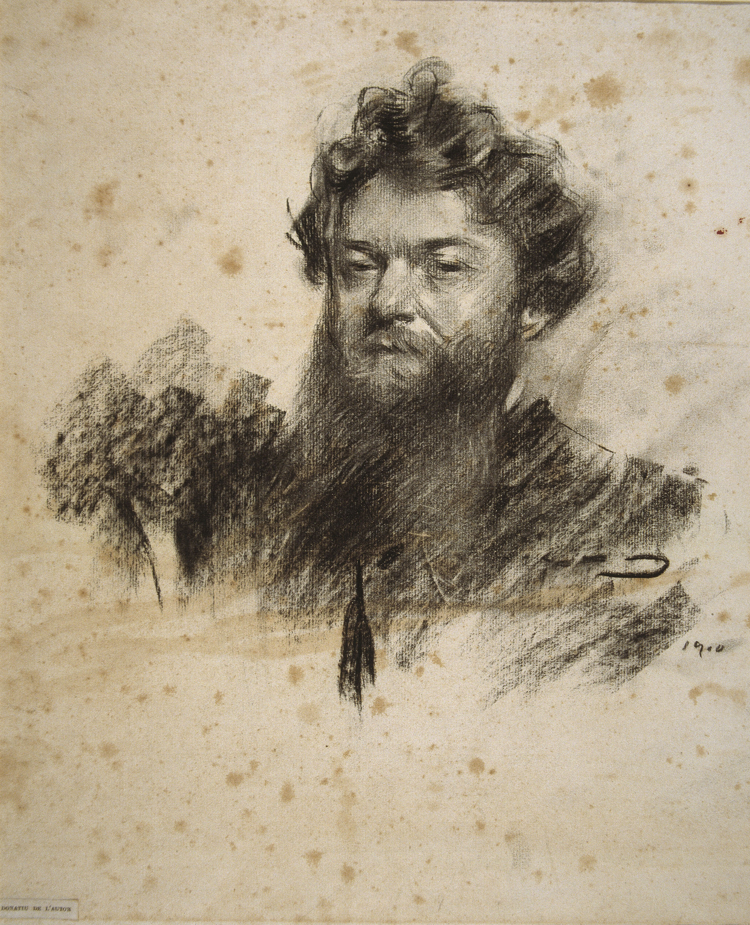 Portrait by Ramon Casas conserved at MNAC in Barcelona. Imagen 023